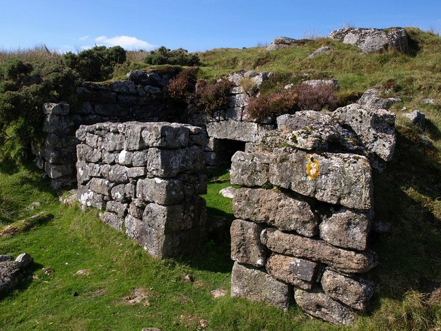 Ruined building, Whiteworks Sturdy walls remain of this structure built partly into the slope on the southwest side of the site.